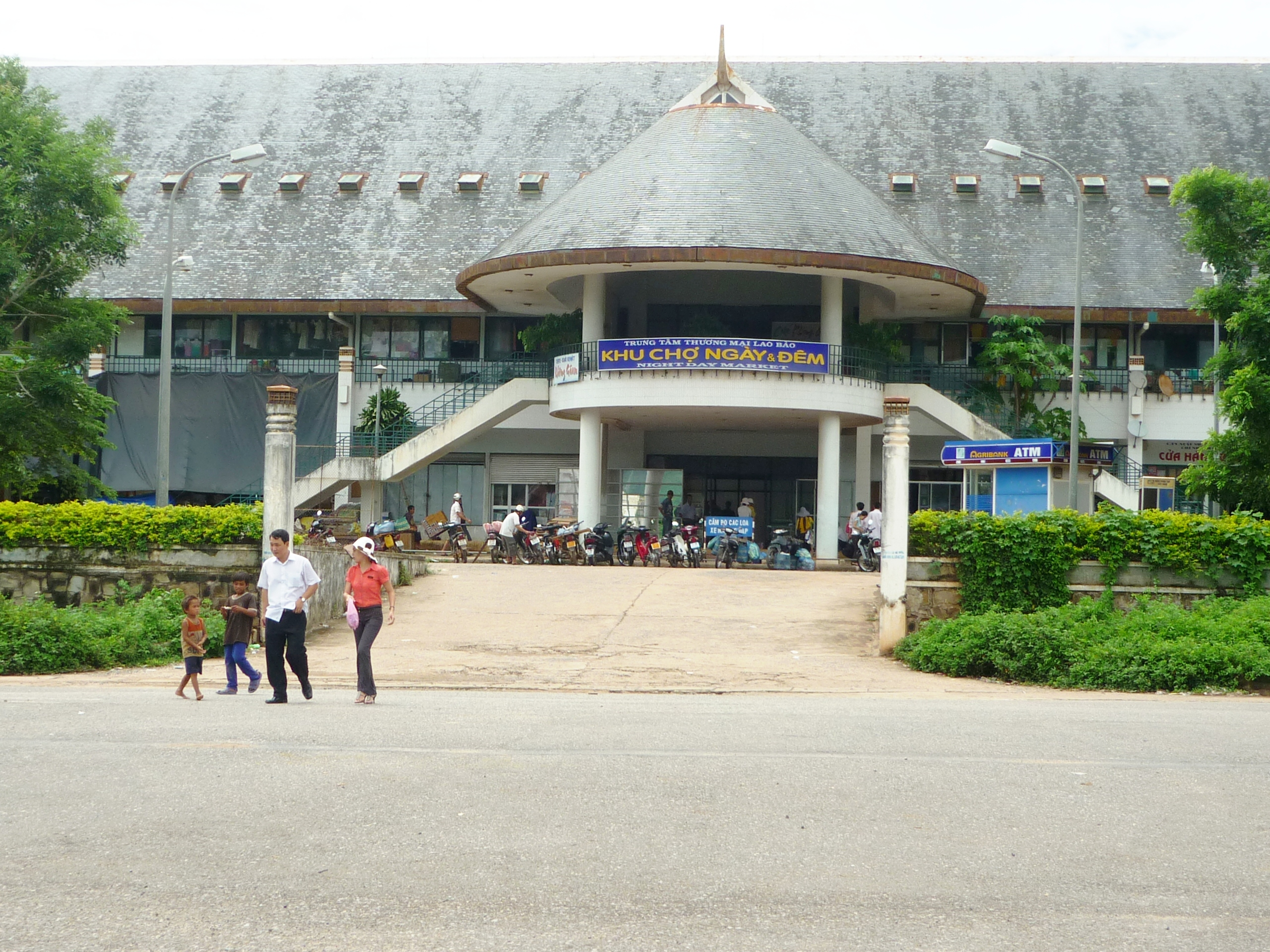 A shopping mall in Lao Bảo Special Economic-Trade Zone, Quảng Trị Province, Việt Nam